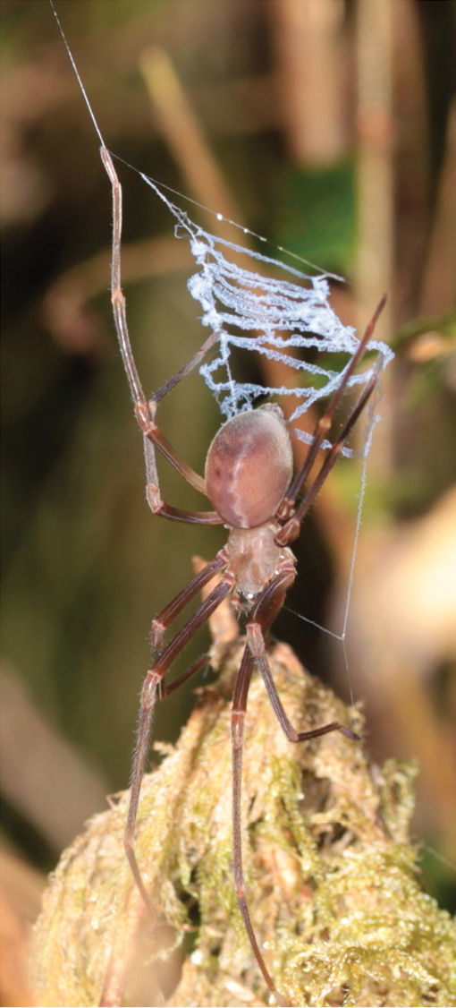 Immature male of P. otwayensis holding the catching ladder.